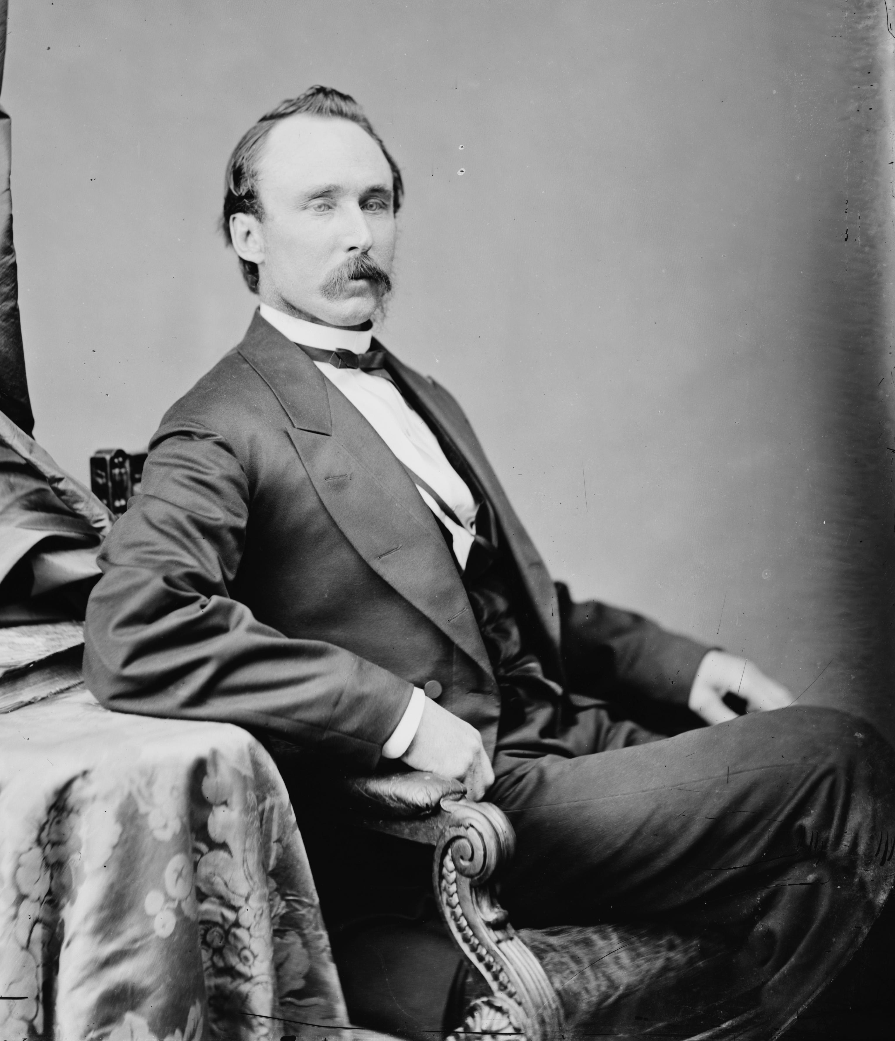 Solomon L. Spink. Library of Congress description: "Hon. Solomon Lewis Spink"